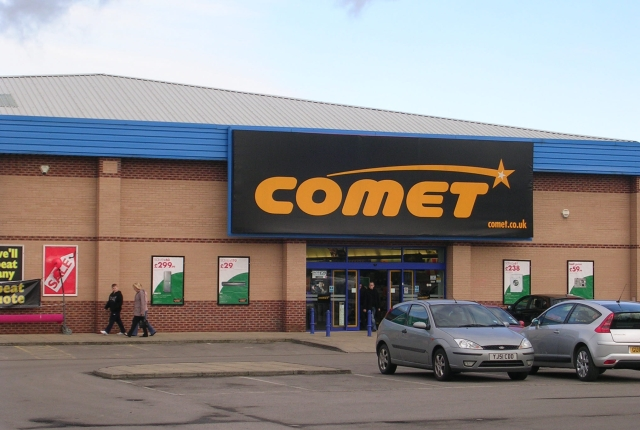 Comet - Park Road Retail Park